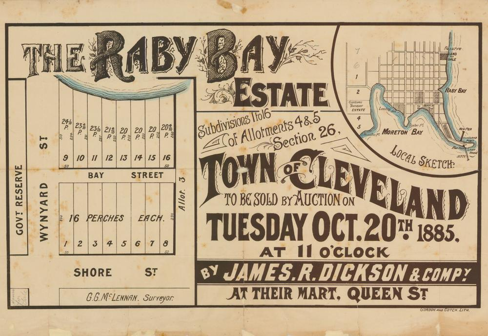 Estate map of Raby Bay Estate, Raby Bay, Queensland, 1885 Real estate map showing allotments to be sold on the 20th October, 1885 by James R. Dickson & Co., auctioneer. Plan includes inset with local sketch of the area. The estate includes allotments on Shore Street, Bay Street and Wynyard Street, Raby Bay.